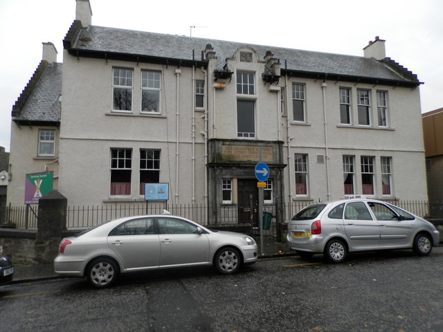 Former Drill Hall, Kirkcaldy